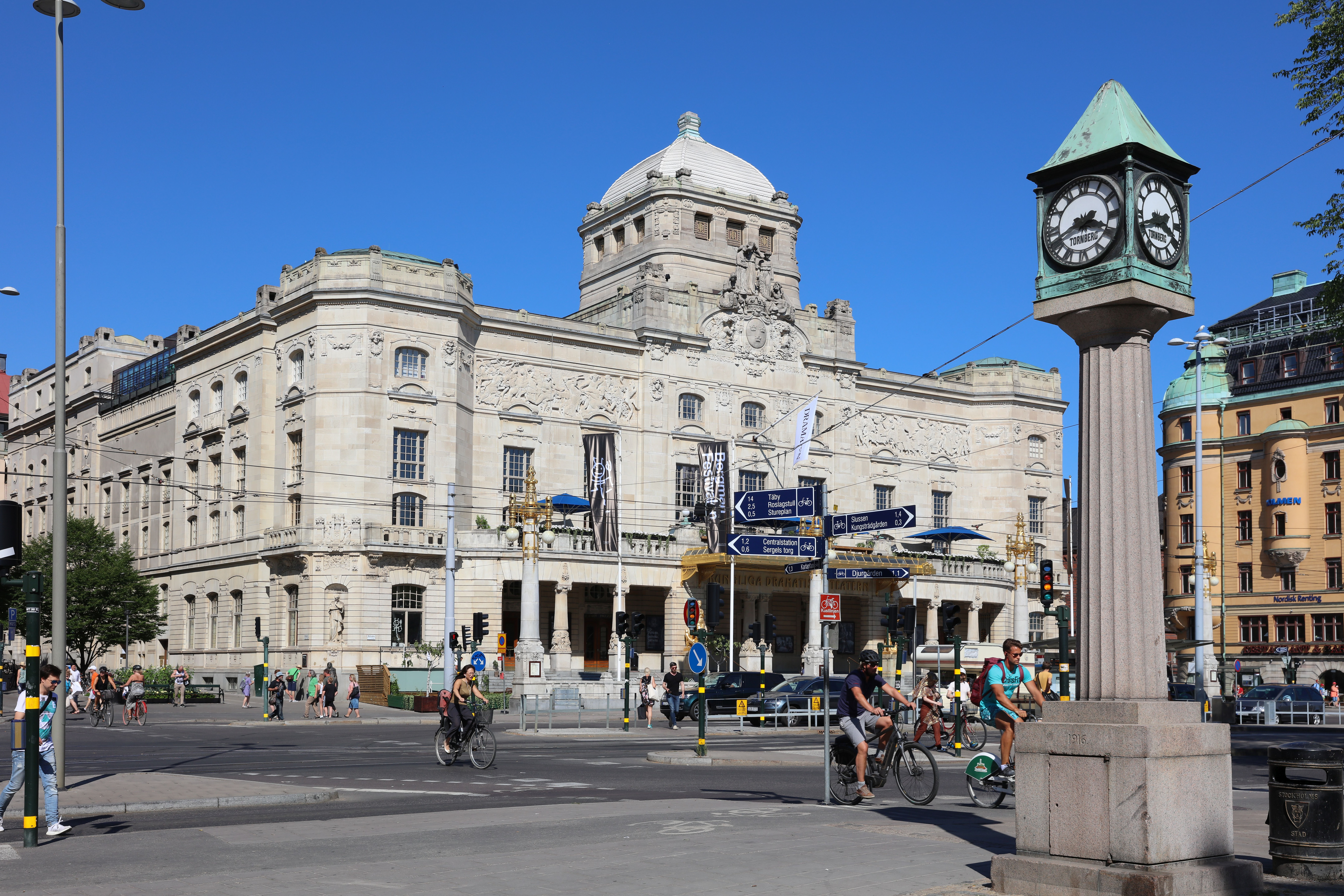 The Royal Dramatic theater at Nybroplan in Stockholm, Sweden.